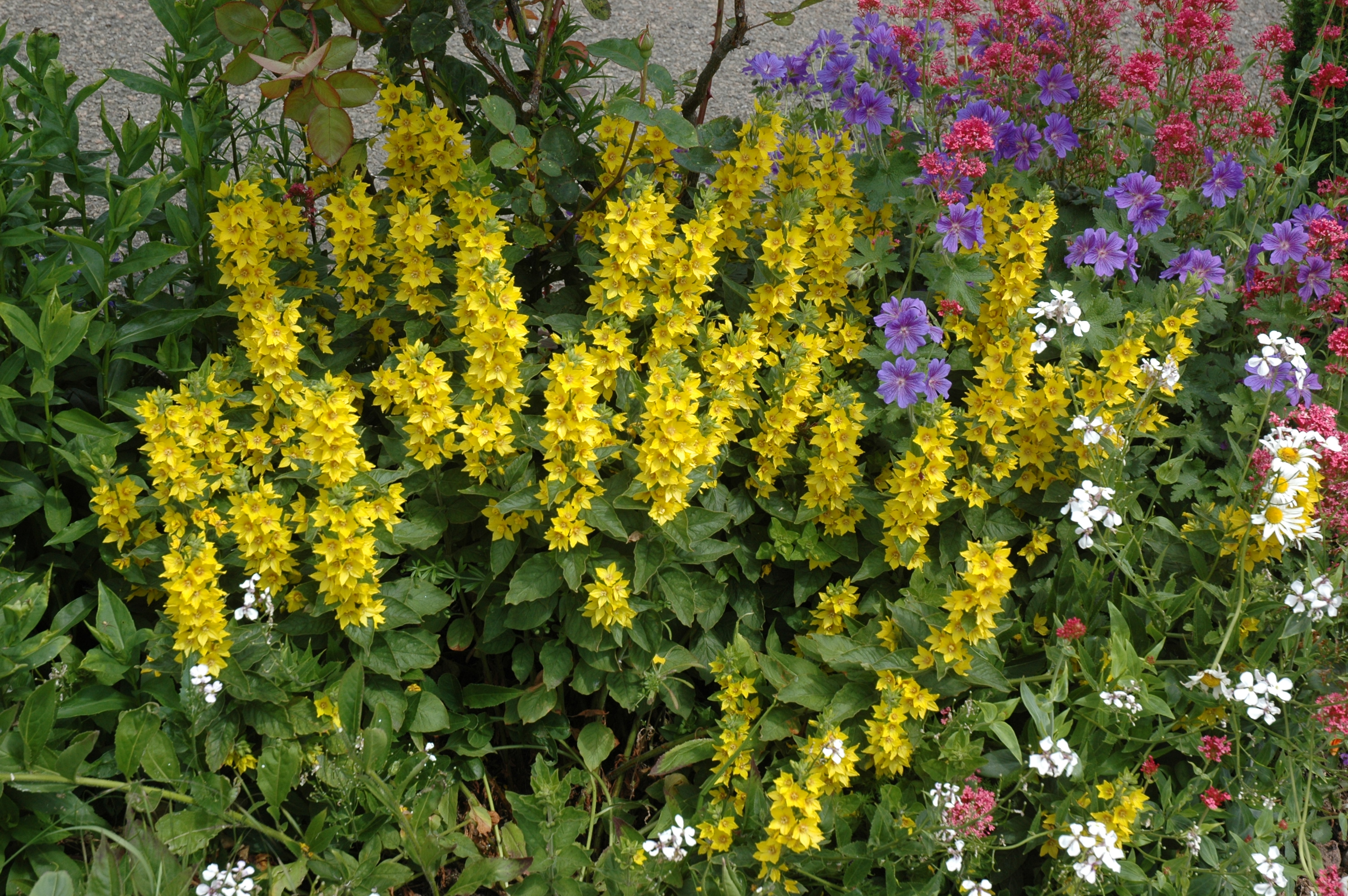 Lysimachia punctata in garden on Platform 2 of Leamington Spa railway station, Warwickshire, England